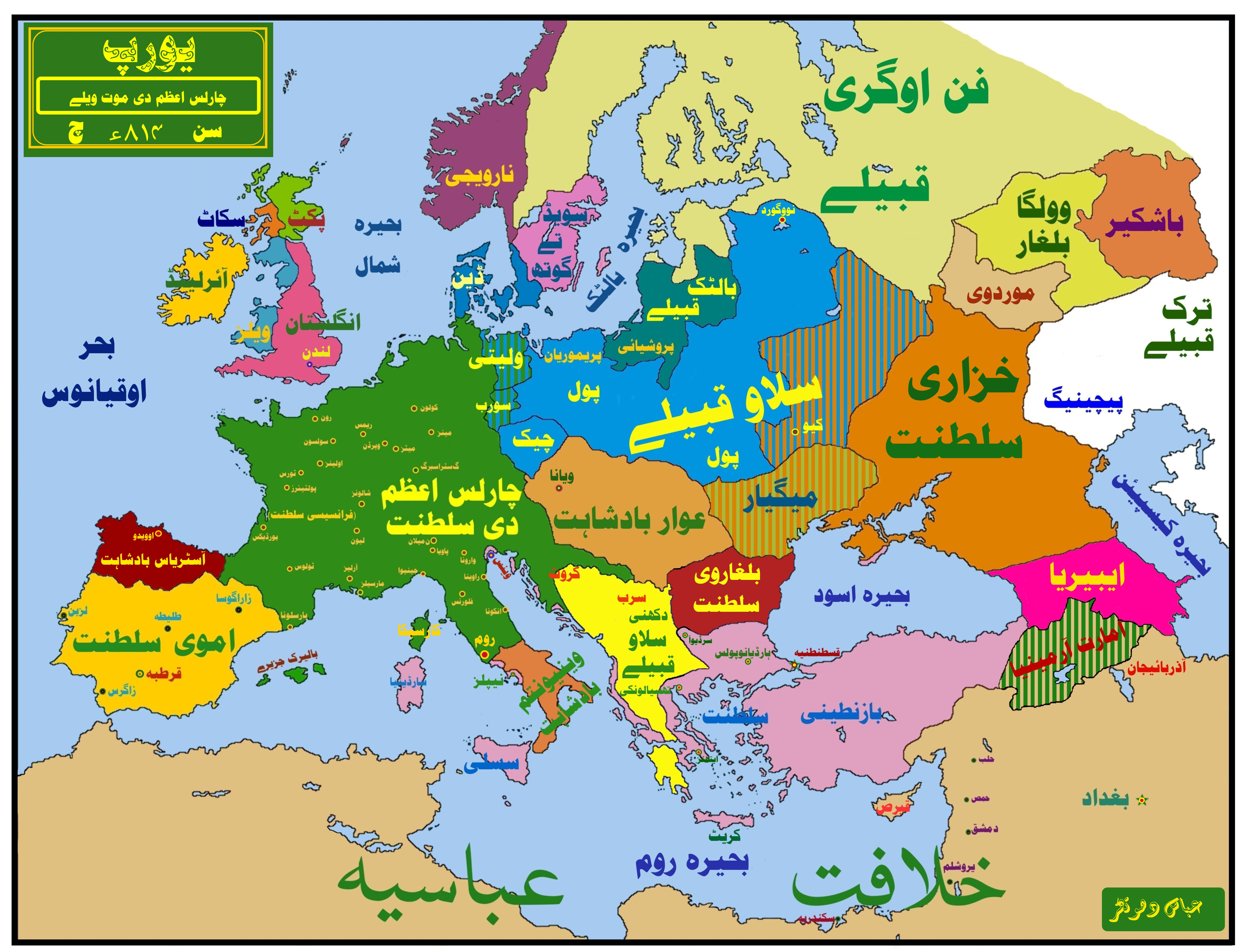 Europe in 814 A.D , Europe history map in punjabi.